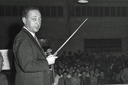 Original Description: JASHA HEFETZ PLAYING AT A CONCERT IN BEER SHEVA.